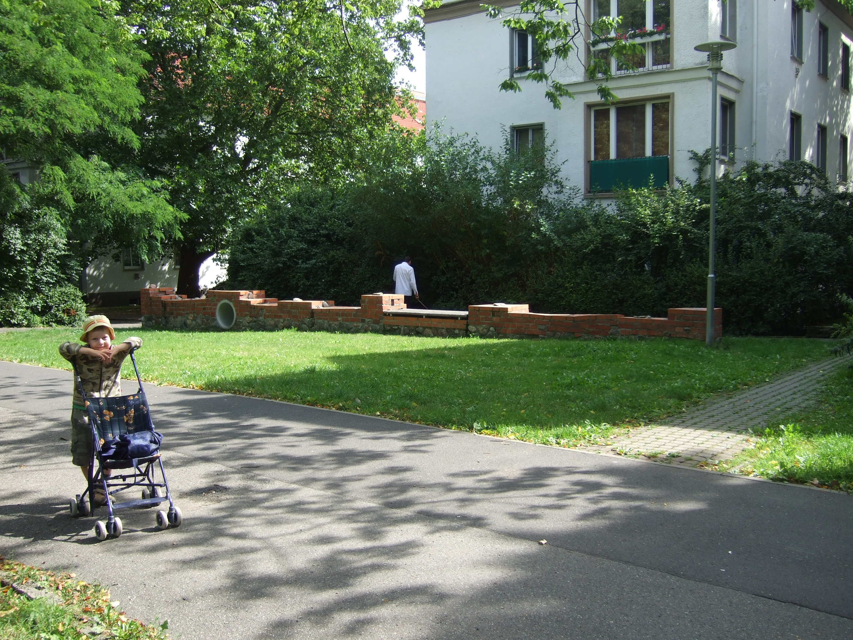 Lennépark Frankfurt (Oder), Germany. Brick wall marking the situation of the lost town wall.